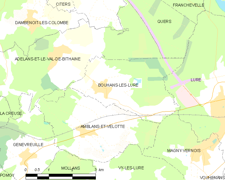 Map of French municipality